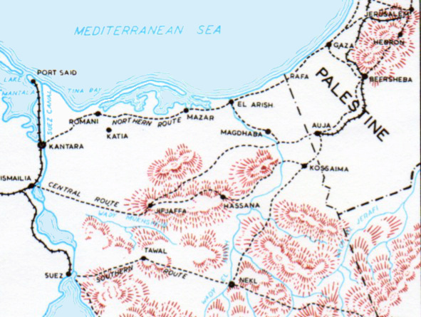 Map showing northern Sinai desert region in World War I; Magdhaba and the railway from Auja to Beersheba.